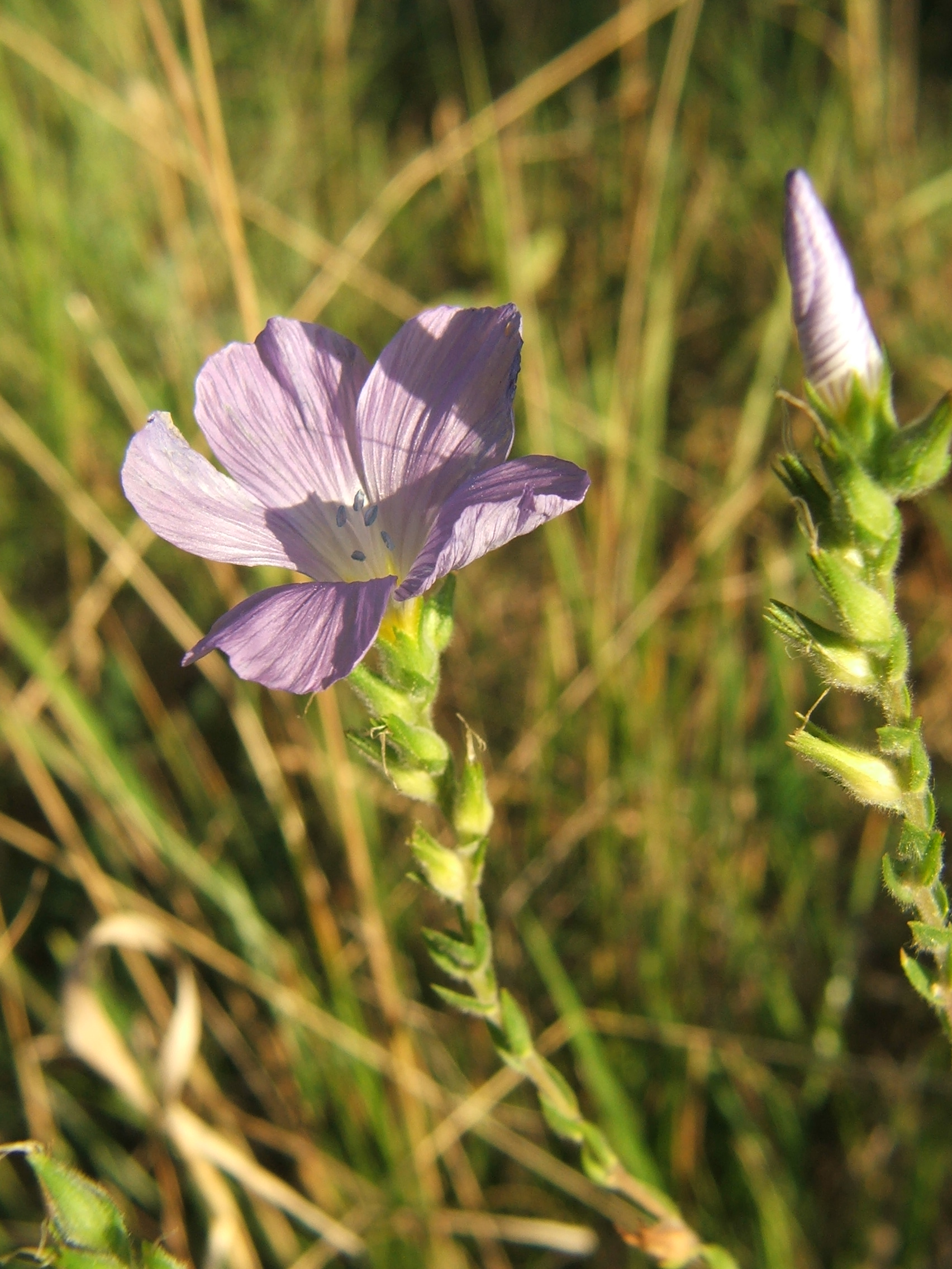 Linum hirsutum L. at Vác (Naszály mountain), Hungary